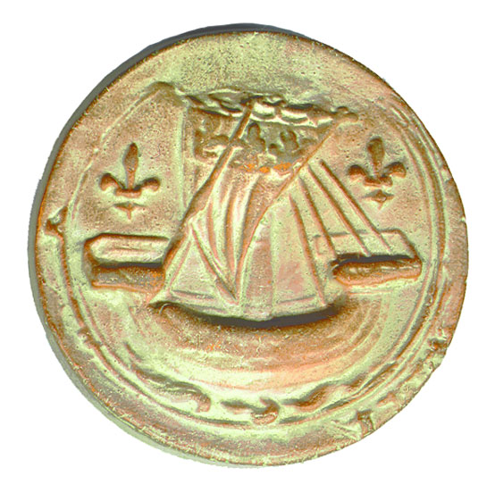 "Seal of the city of Paris, France. 6th. 1412-1416." SC-SPCOLL: Collection includes handwritten memorandum for York University Libraries dated April 24, 1963. Item Description: Seal is "D5585". Number identifies the original seal matrix (die) held by the Archives nationales (France). Item is one of a set of twenty-four, housed in a two tier wooden box. Seal impression is in relief. Seal motif is of a vessel with full rigging, sail raised, three fleurs-de-lis on the sail, and flanked by two other fleurs-de-lis in the background. Lacks inscription. Seal was appended to several documents from October 1412-March 1416. Seal impression is in relief. As viewed University of Notre Dame, Medieval Institute Library website, February 10, 2014. Physical Description: 1 circular municipal seal impression : clay, ill. ; 5 x 5 cm.